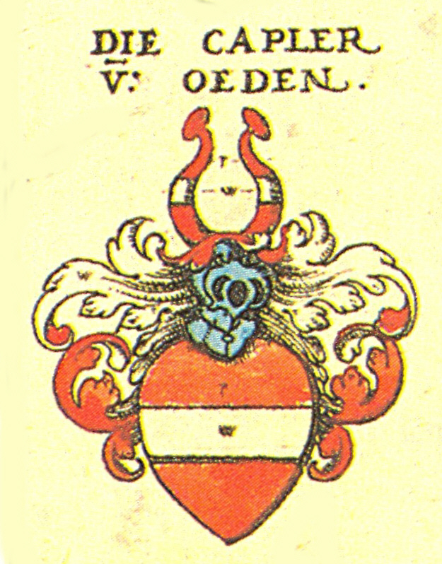 Coat of arms of the family Capler